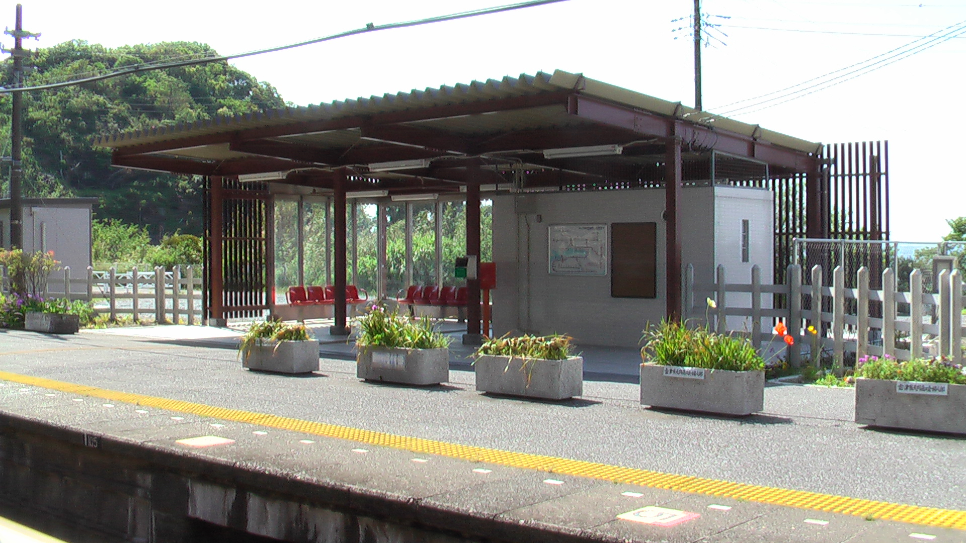 This is a shot I took of Takeoka Station (竹岡駅) in 2008 for use in Wikipedia (which didnt even have the applicable English page yet!) but I forgot to upload it. Here it finally is! Enjoy.